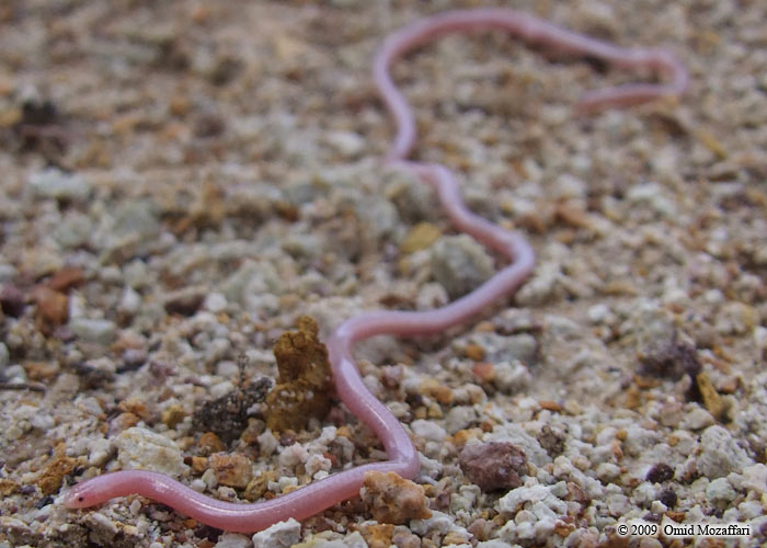 Leptotyphlops macrorhynchus syn. Myriopholis macrorhyncha at Jaroo mountain (Karaj, Tehran, Iran)